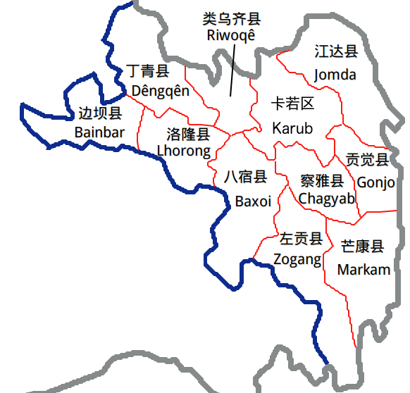 Counties in Qamdo City, Tibet Autonomous Region of China